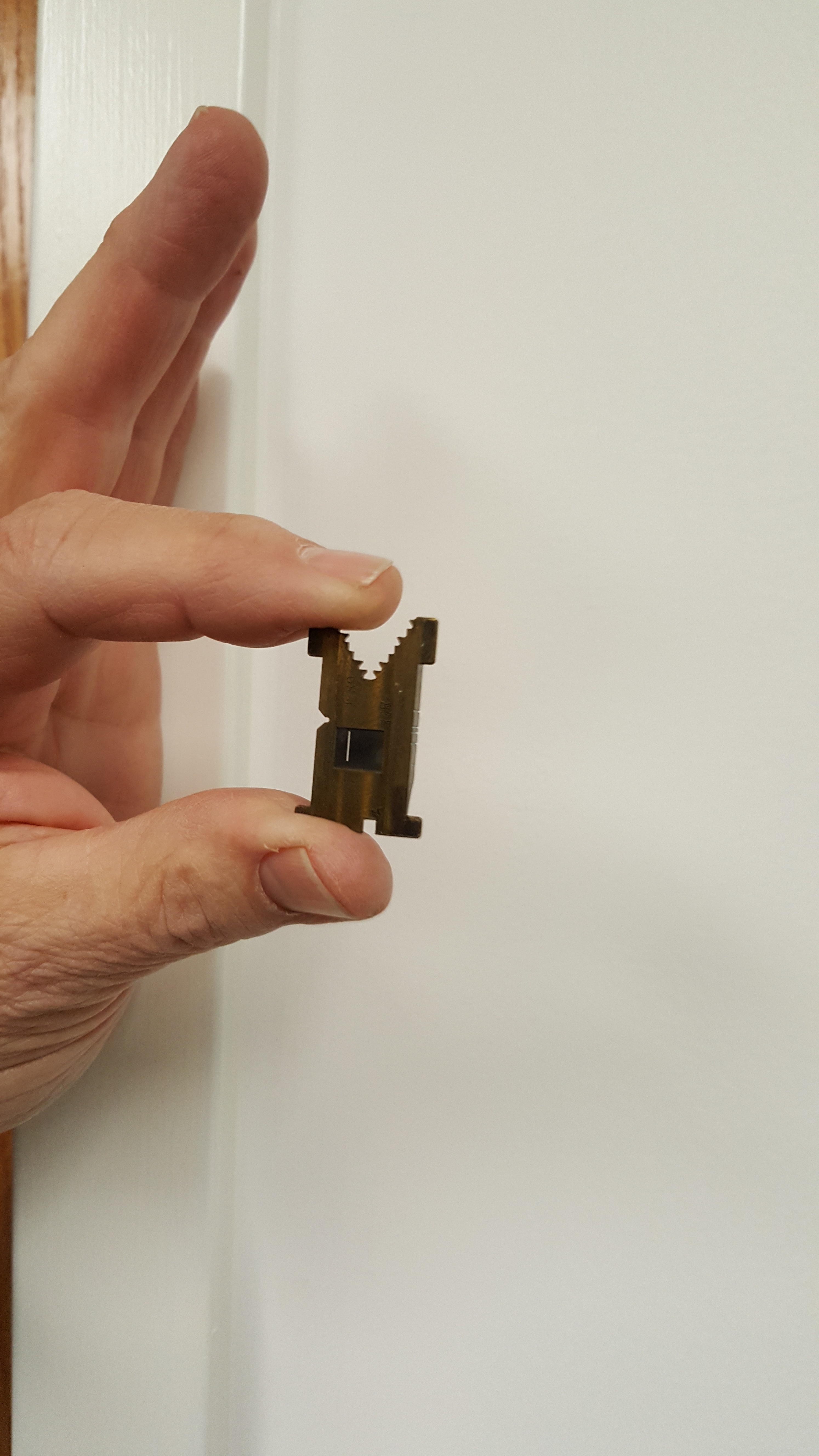 intertype fotosetter matrix, in Museum of printing, Haverhill, MA